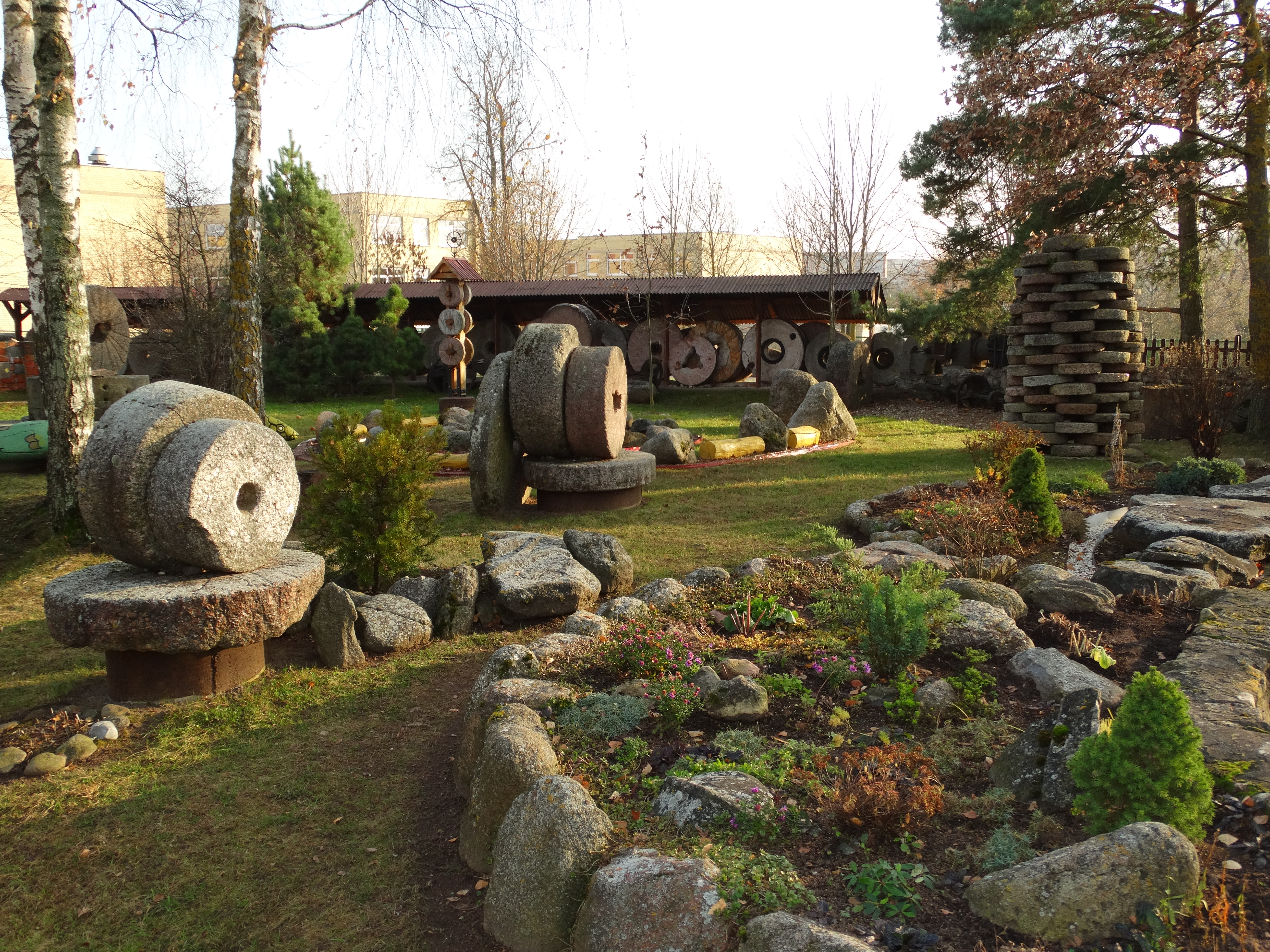 Museum of millstones, Pasvalys, Lithuania